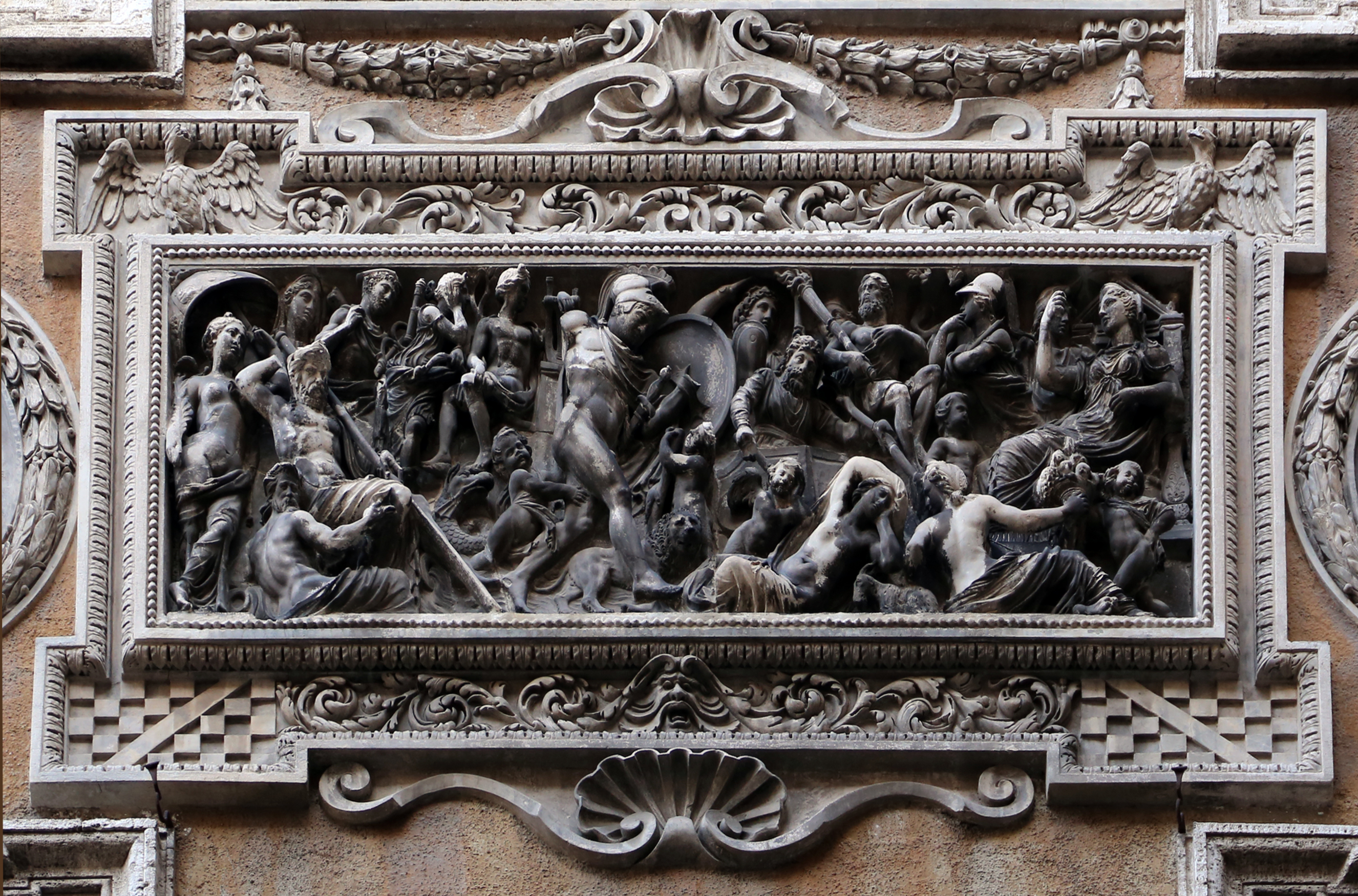 Palazzo Mattei di Giove (Rome)